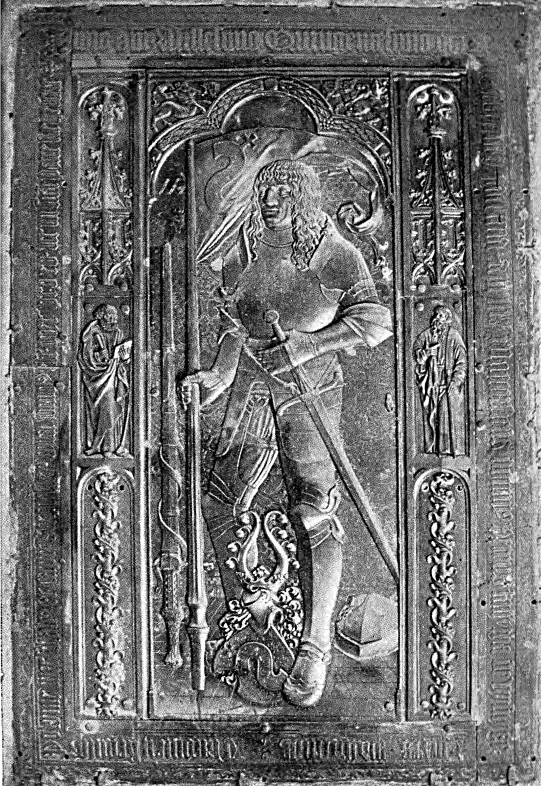 Gravestone of Piotr Kmita (†1505). From workshop of Peter Vischer the Elder, Nuermberg. Located in Wawel cathedral, Kraków, Poland.